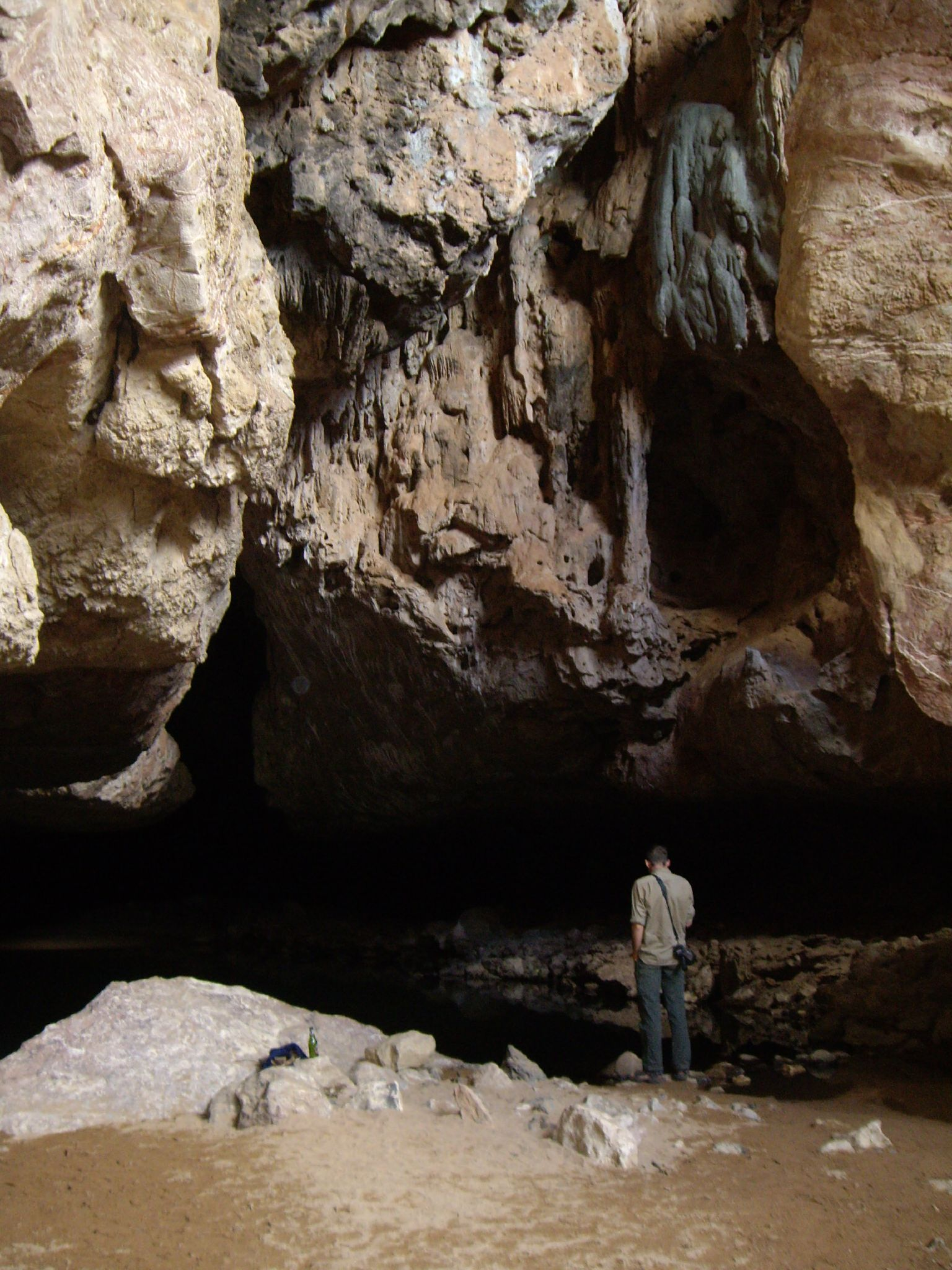 This is a photograph of Tunnel Creek in the Kimberley region of Western Australia